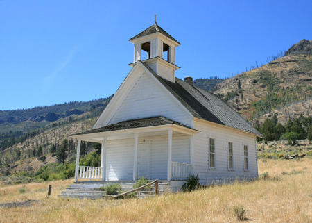 One-room school in Summer Lake, Oregon; built in 1890 by the Harris family; the school was closed in 1919; it reopened in 1926 for another three years before it was permanently closed in 1929.